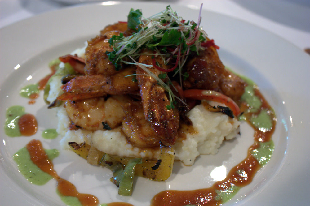 Shrimp & grits, Commander's Palace restaurant, New Orleans.